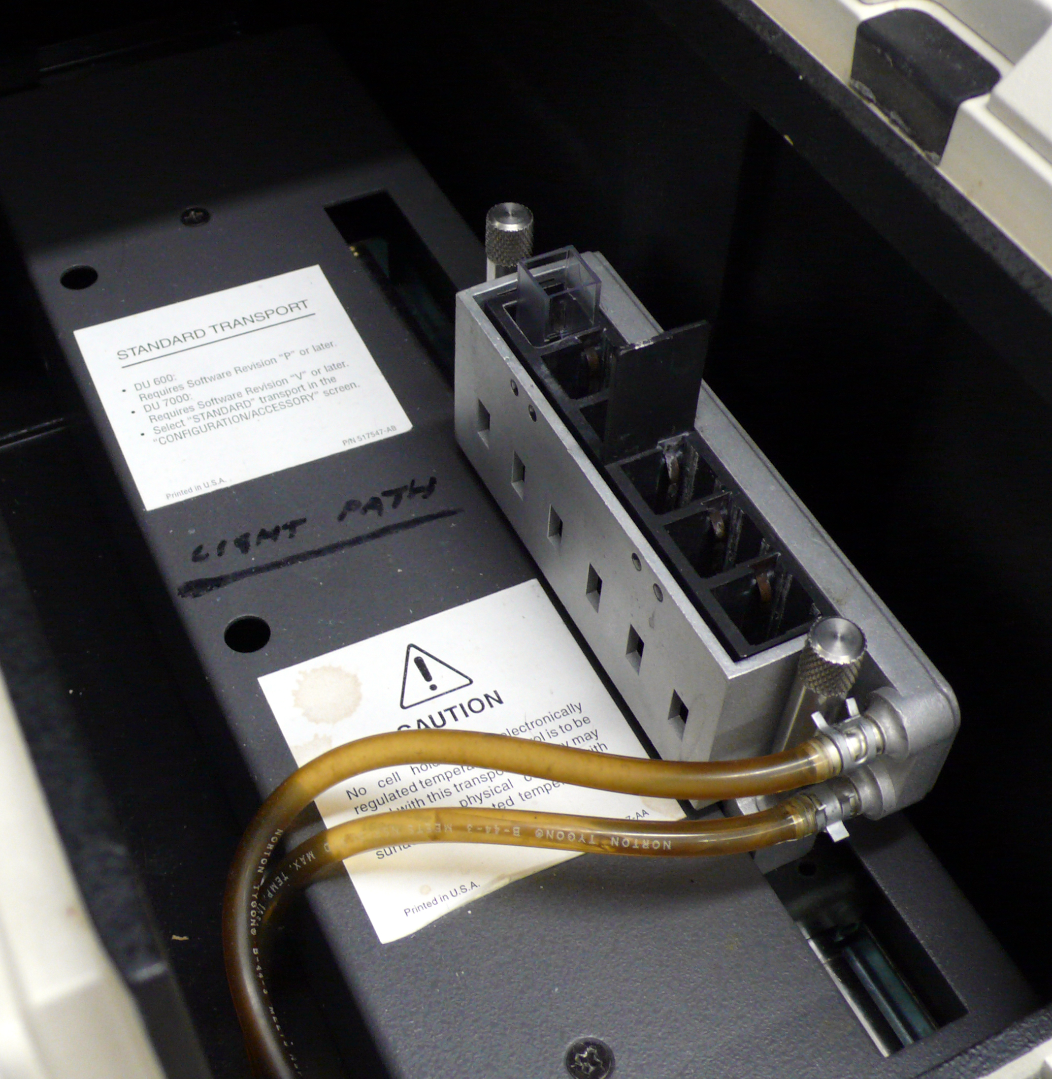 Cuvette holder in a temperature-controlled Beckman DU640 spectrophotometer